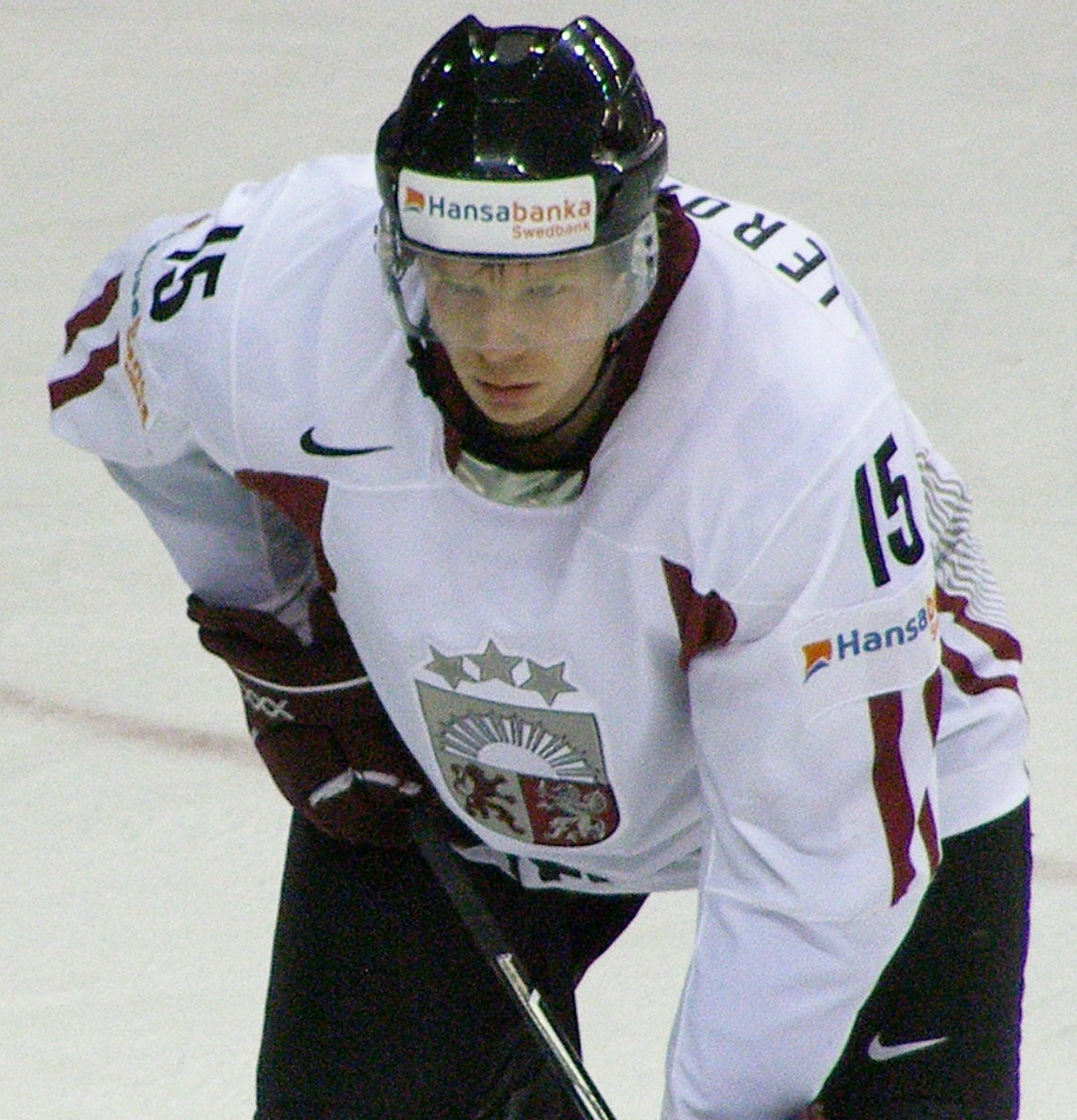 Aleksandrs Jerofejevs /Latvia VS Slovenia (IIHF World Hockey Championship in Halifax NS, May 6 2008)/